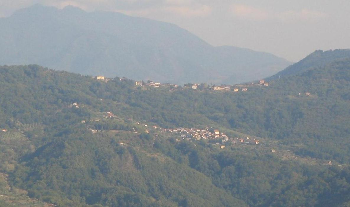 Panoramic view of the village of Gorga, in the Province of Salerno, with (above) the upper quarter of Stio, named Piano del Rosario.